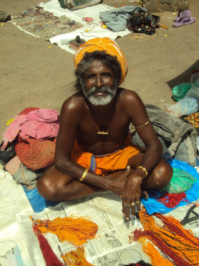 Sekar, the Narikoravan.